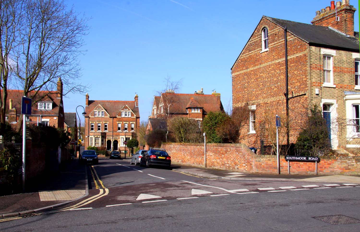 Southmoor Road, Oxford, seen from Kingston Road